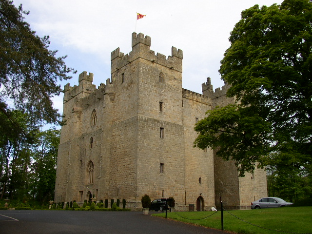 Langley Castle is a restored medieval tower house, now operated as an hotel, situated in the village of Langley in the valley of the South Tyne some three miles south of Haydon Bridge, Northumberland.